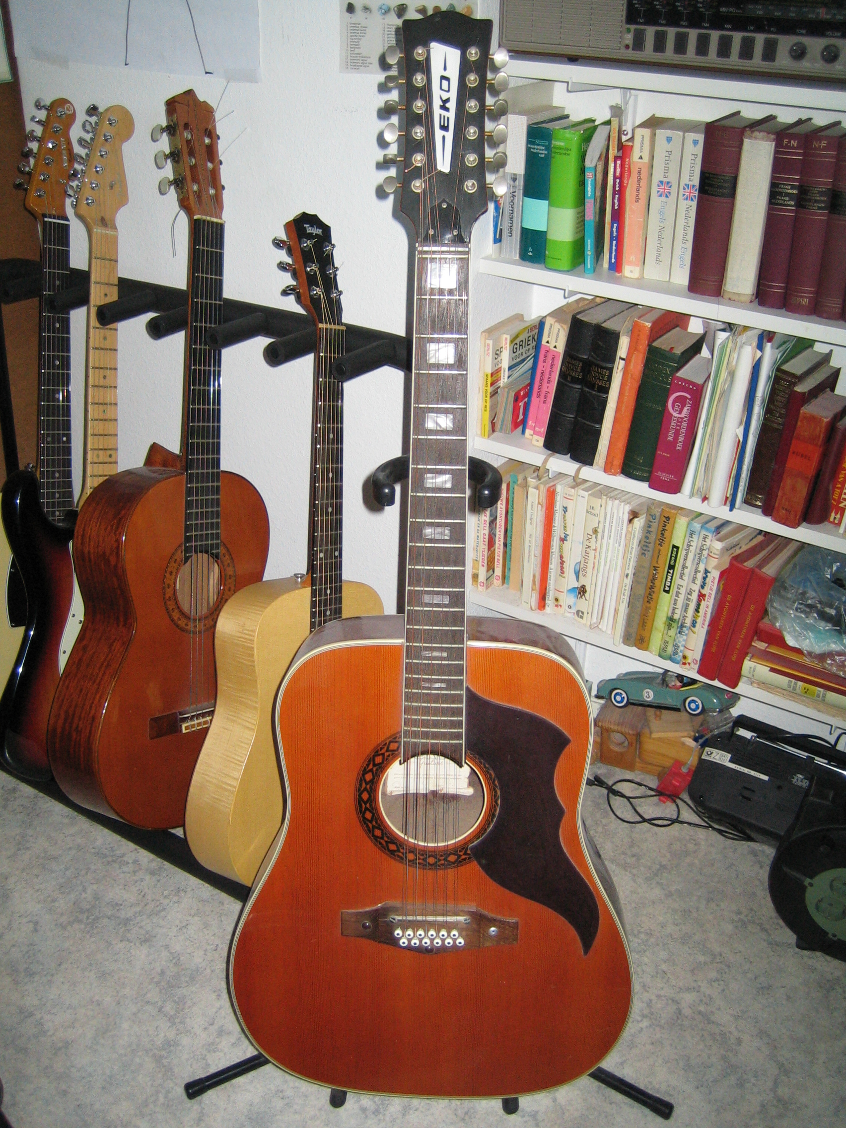 Twelve string guitar